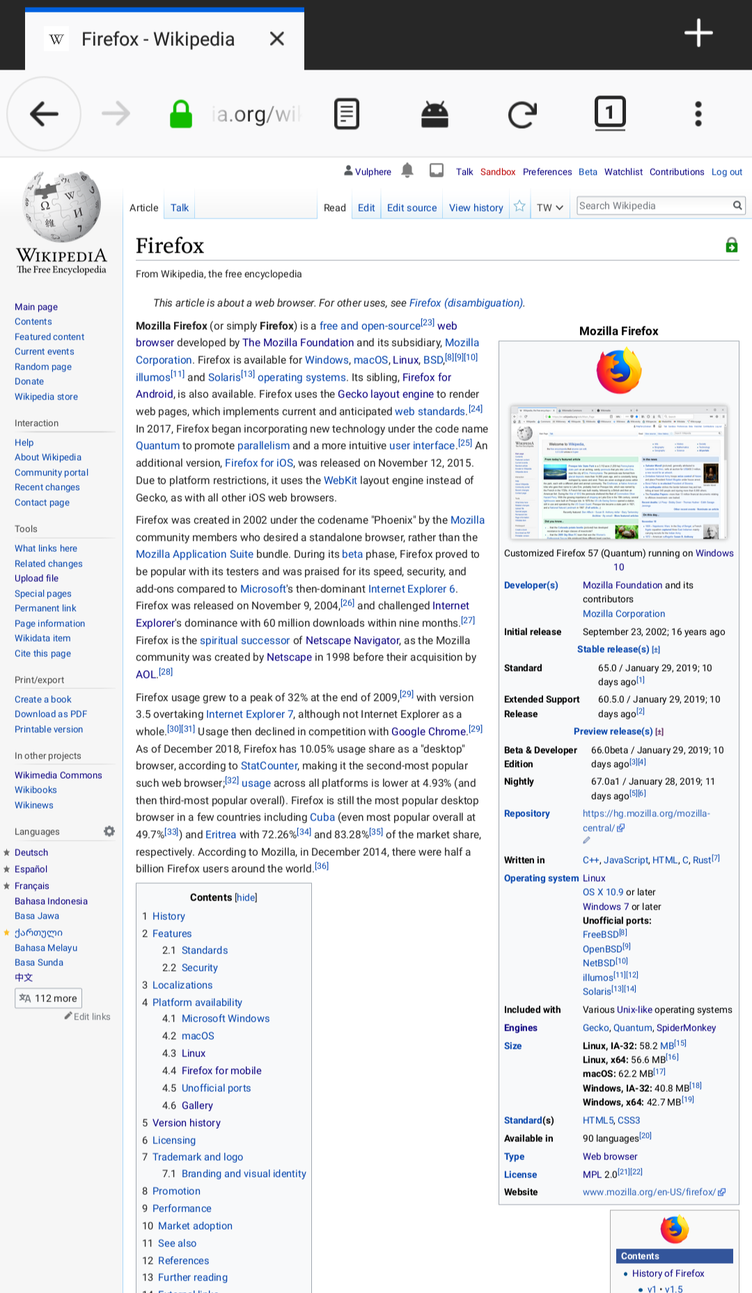 Firefox 65 for Android on Tablet mode, version 65.0.